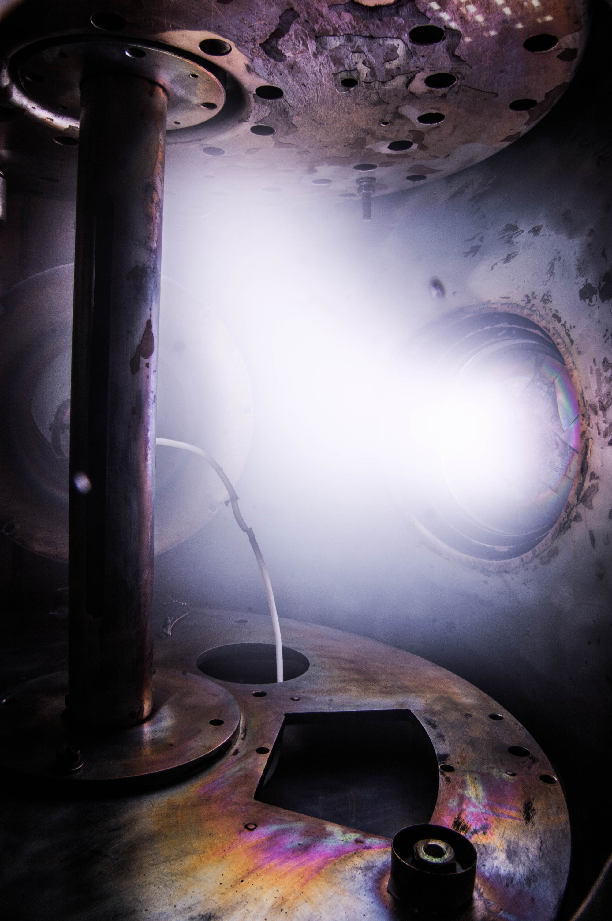 A radiofrequency plasma source at low operating pressure (less than 1 Pa)